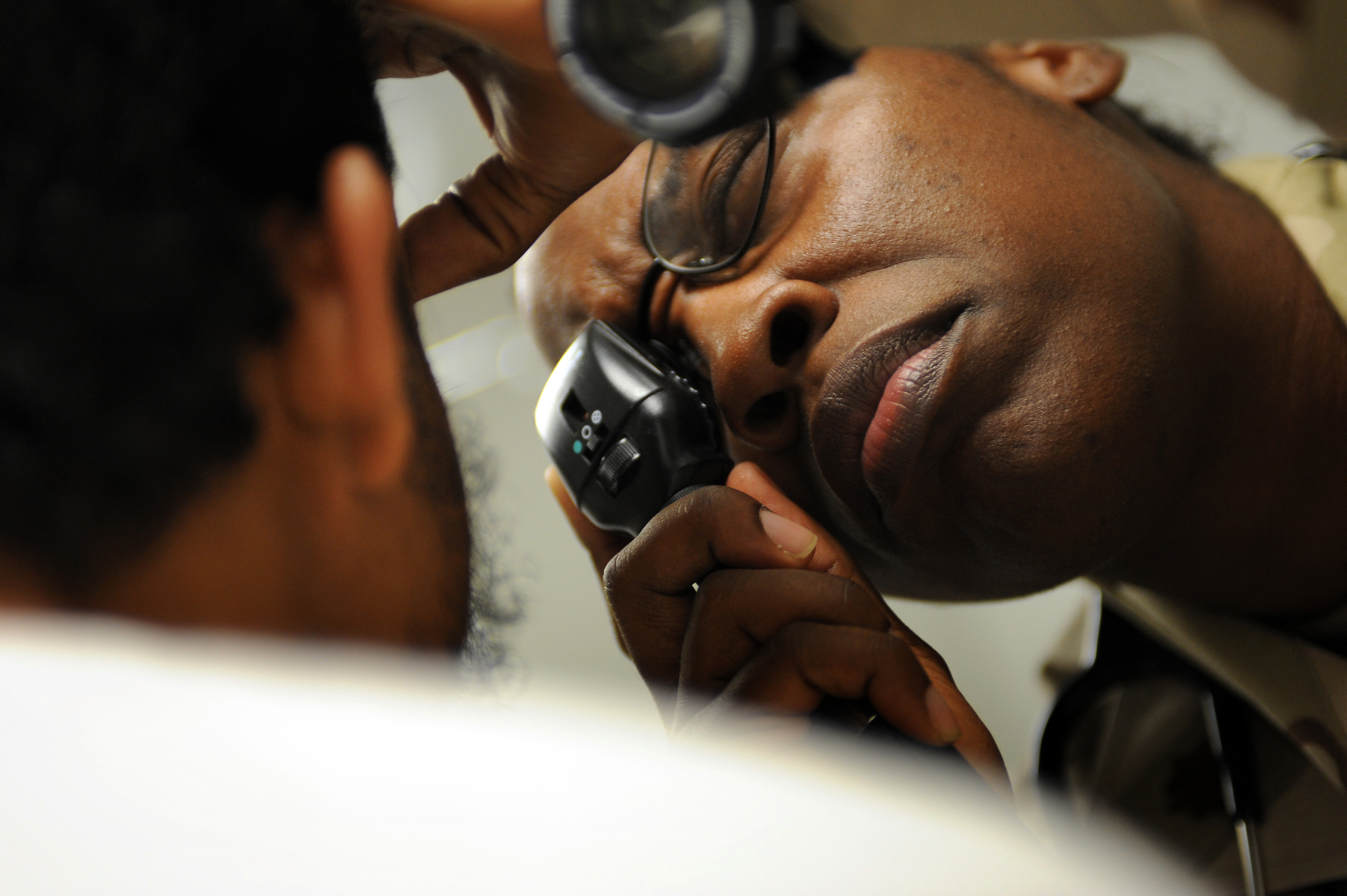 Navy Lt. Cmdr. Angela Stallworth, a medical officer with Joint Task Force Guantanamo’s Joint Medical Group, provides a routine checkup for a detainee, July 9, 2010. The JMG provides medical care to the detainees at JTF Guantanamo. (JTF Guantanamo photo by U.S. Air Force Tech. Sgt. Michael R. Holzworth)